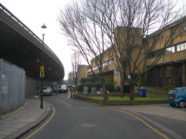 Acklam Road, W10 The flyover to the left of the picture carries the busy A40 Westway. I do not know if the local authority flats on the right hand side were built before or after the flyover -- it must be an extremely noisy and polluted environment in which to live.